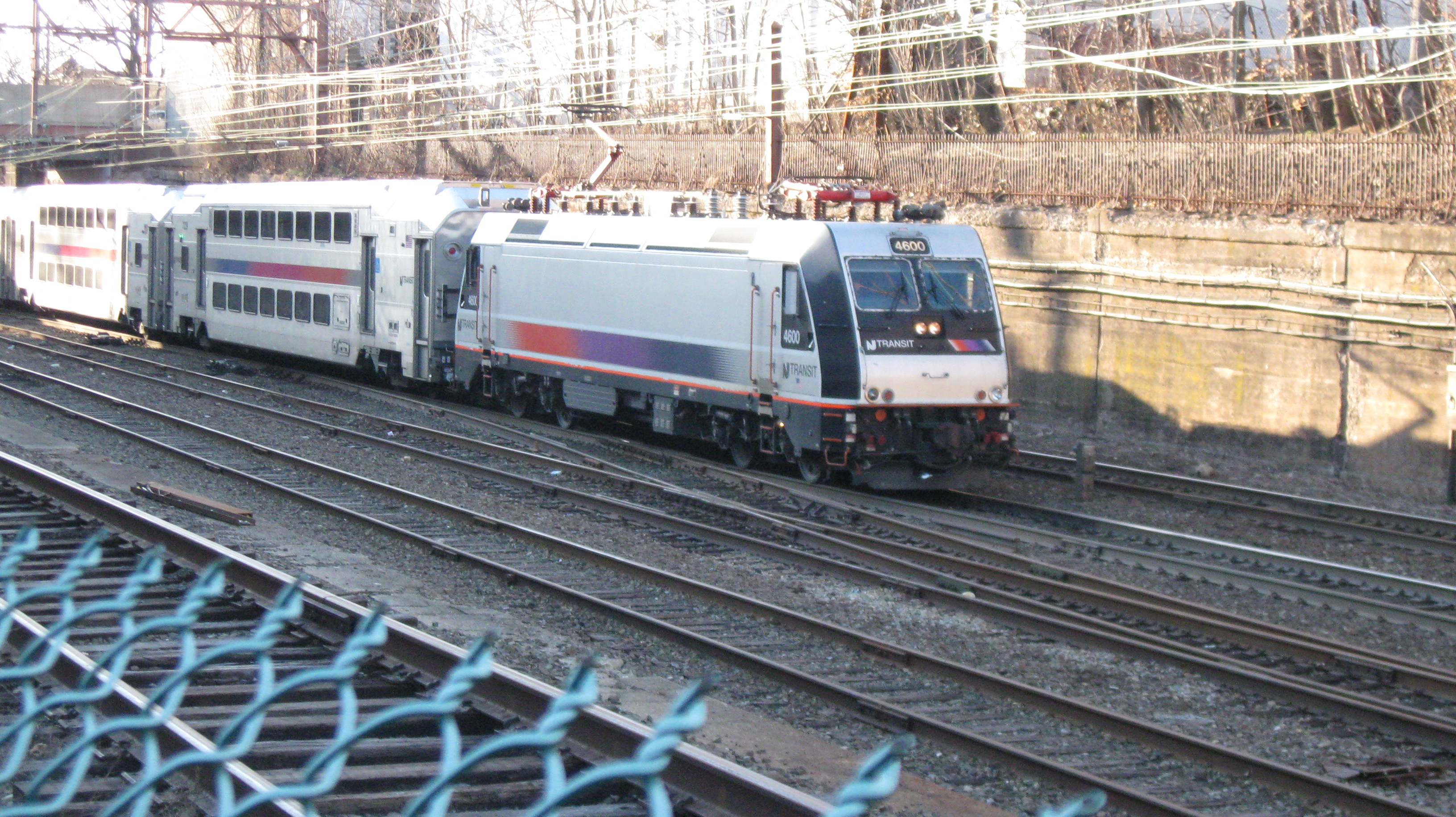 ALP 46 4600 in Summit, NJ